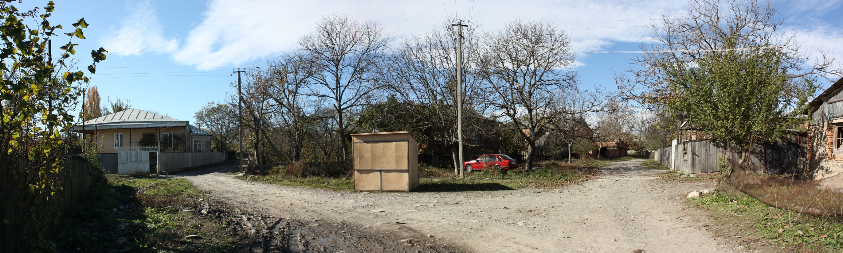 The Georgian village of Brotsleti.